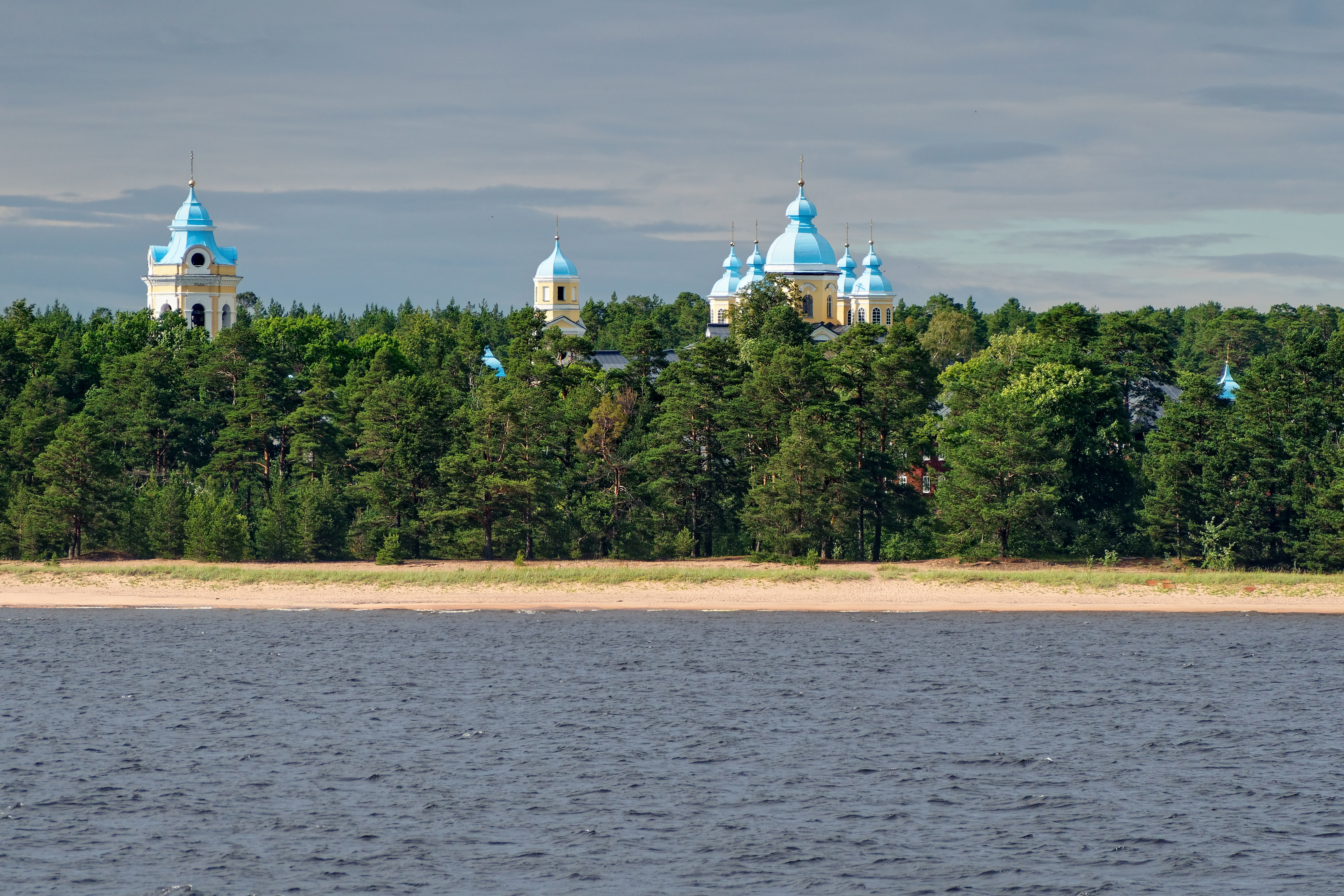 Lake Ladoga. Island Konevets. Konevsky Monastery